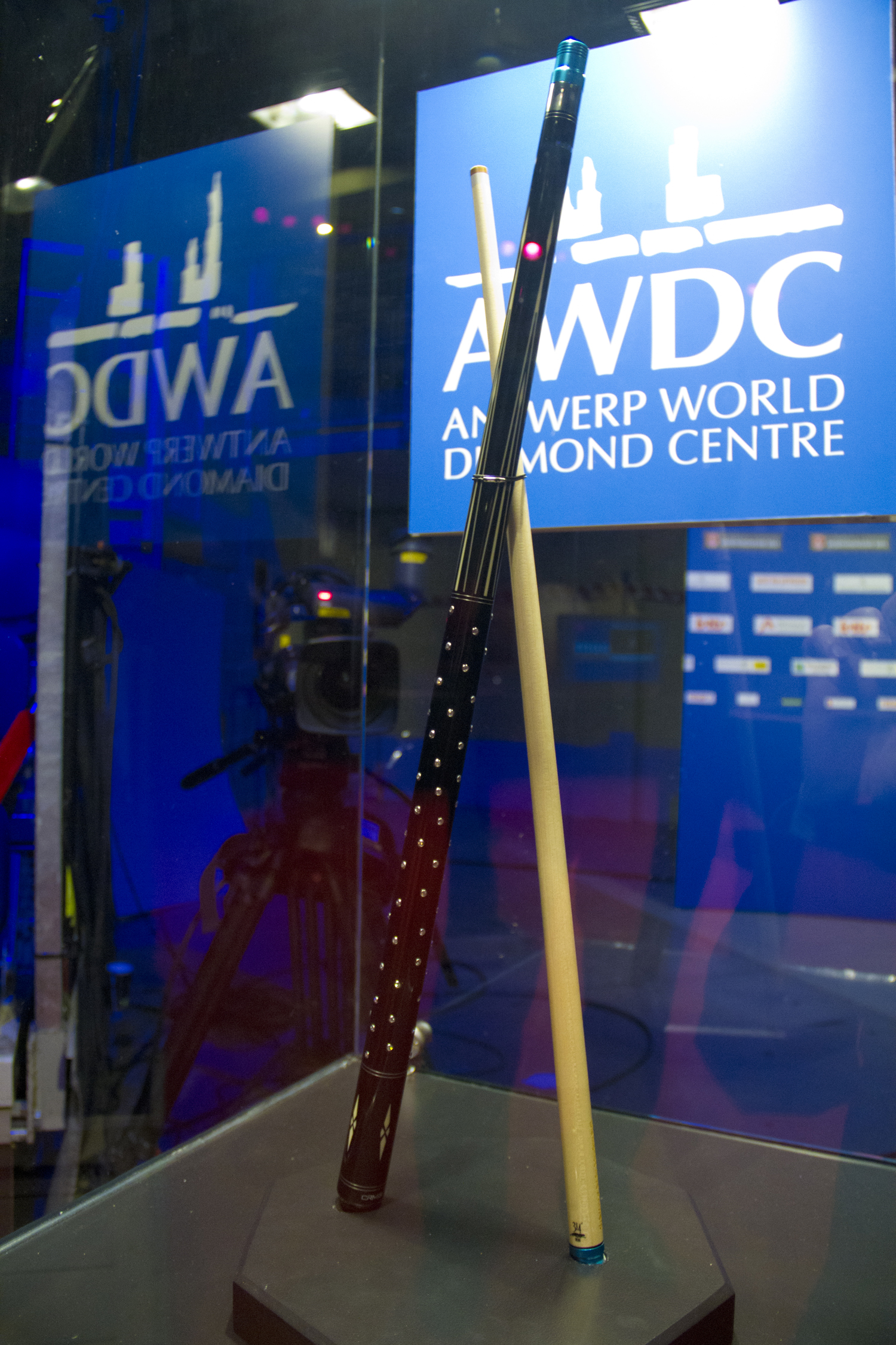 The cue is inlaid with 80 diamonds and was donate by the "Antwerp Diamond Center“. It went to the winner Frédéric Caudron.